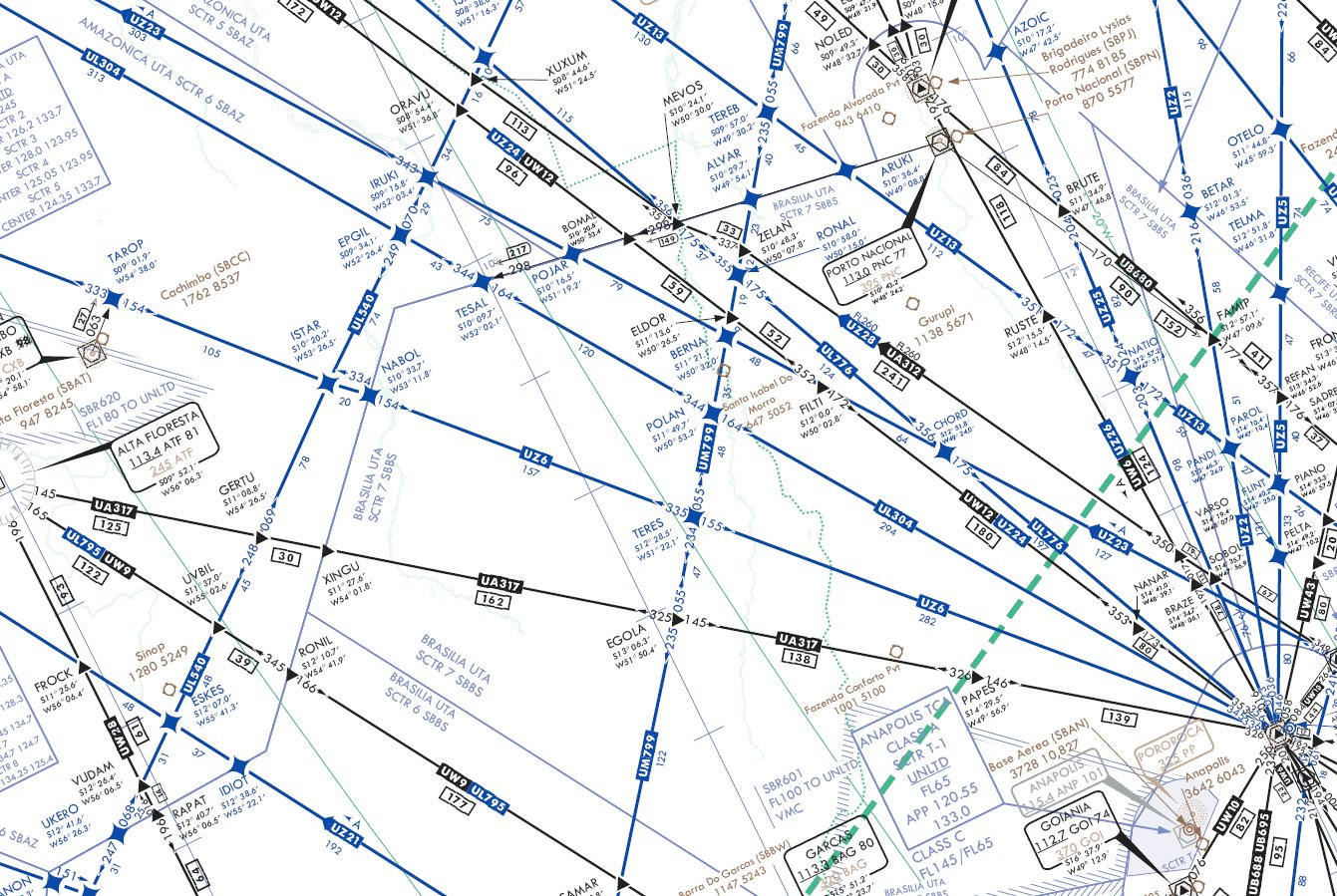 Extract (via PhotoShopPro) from DOD FLIGHT INFORMATION PUBLICATION ENROUTE HIGH ALTITUDE CARIBBEAN AND SOUTH AMERICA.